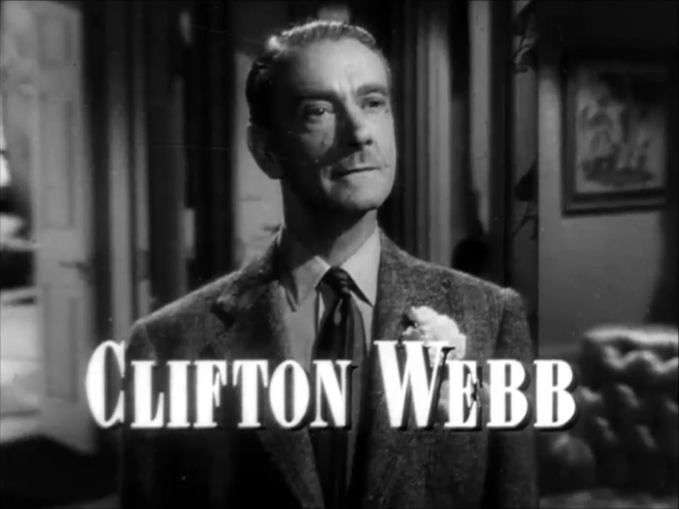 Cropped screenshot of Clifton Webb from the trailer for the film Laura.